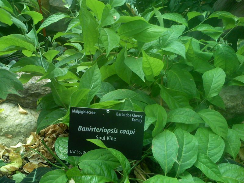 Young Banisteriopsis caapi.